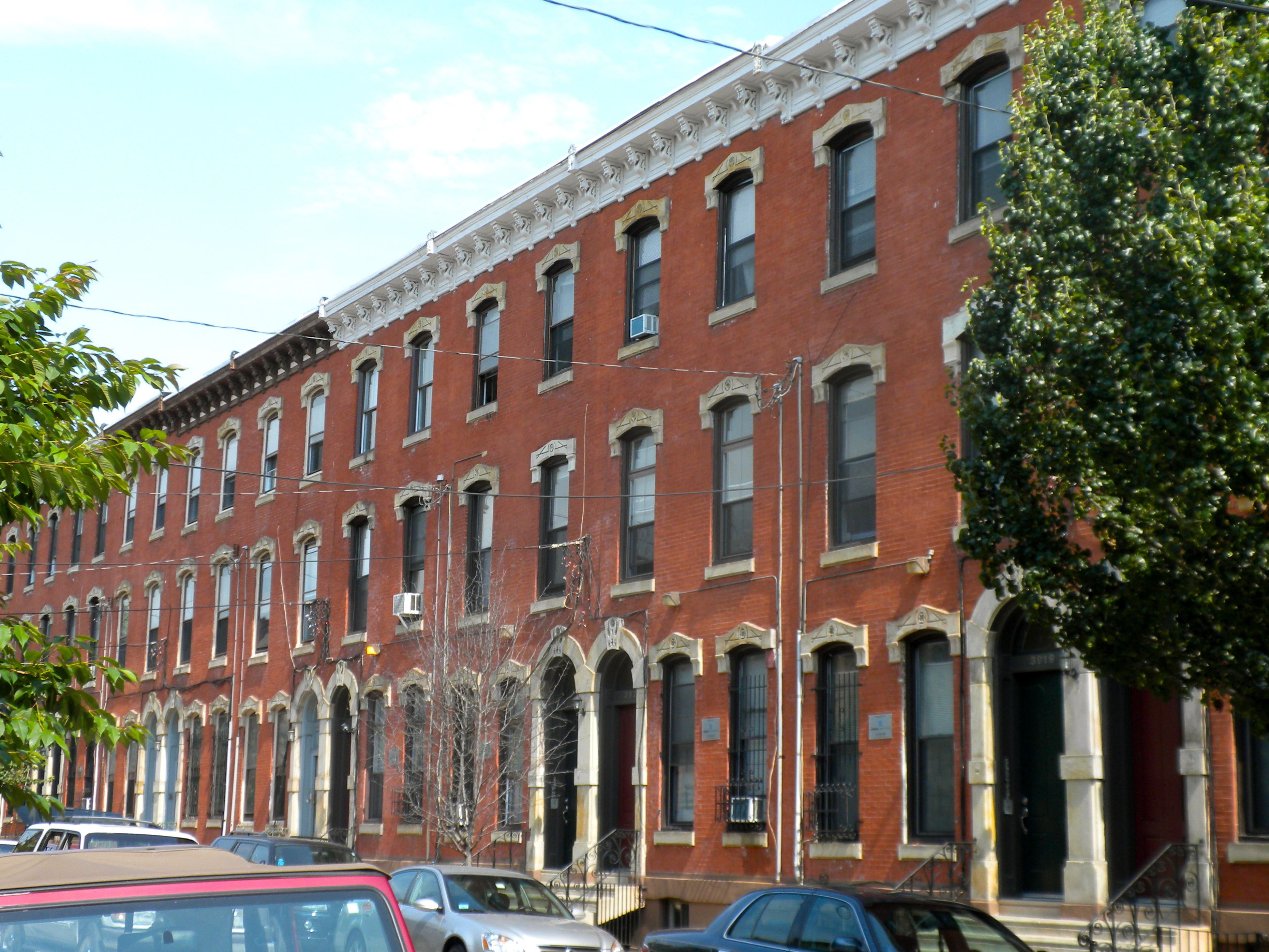 Drexel Development Historic District on the NRHP since November 14, 1982. District is roughly bounded by Pine, Delancey, 39th and 40th Streets in the University City neighborhood of west Philadelphia.